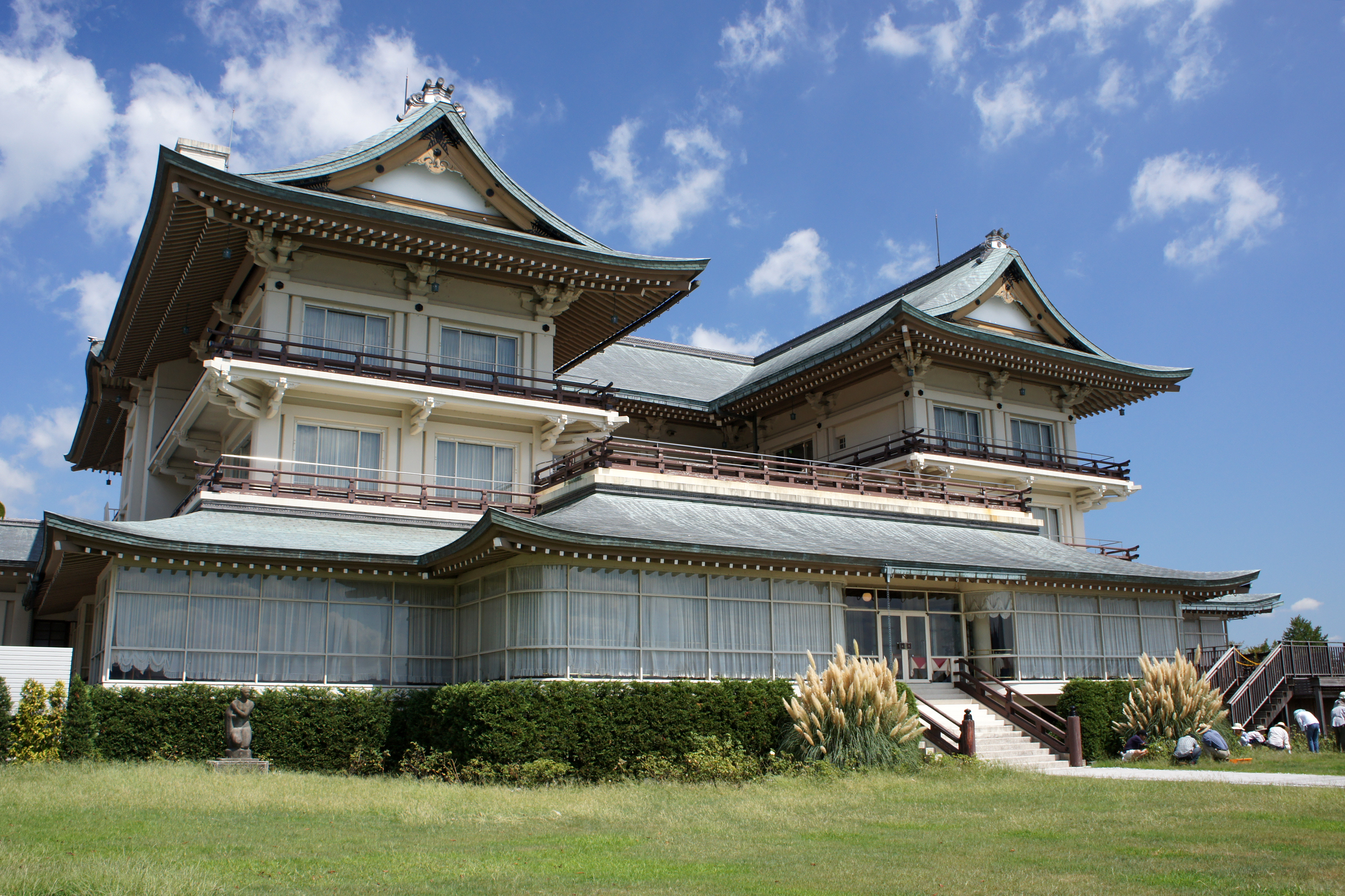 Biwako Ōtsukan of Yanagasaki Lakeside Park in Ōtsu, Shiga prefecture, Japan.